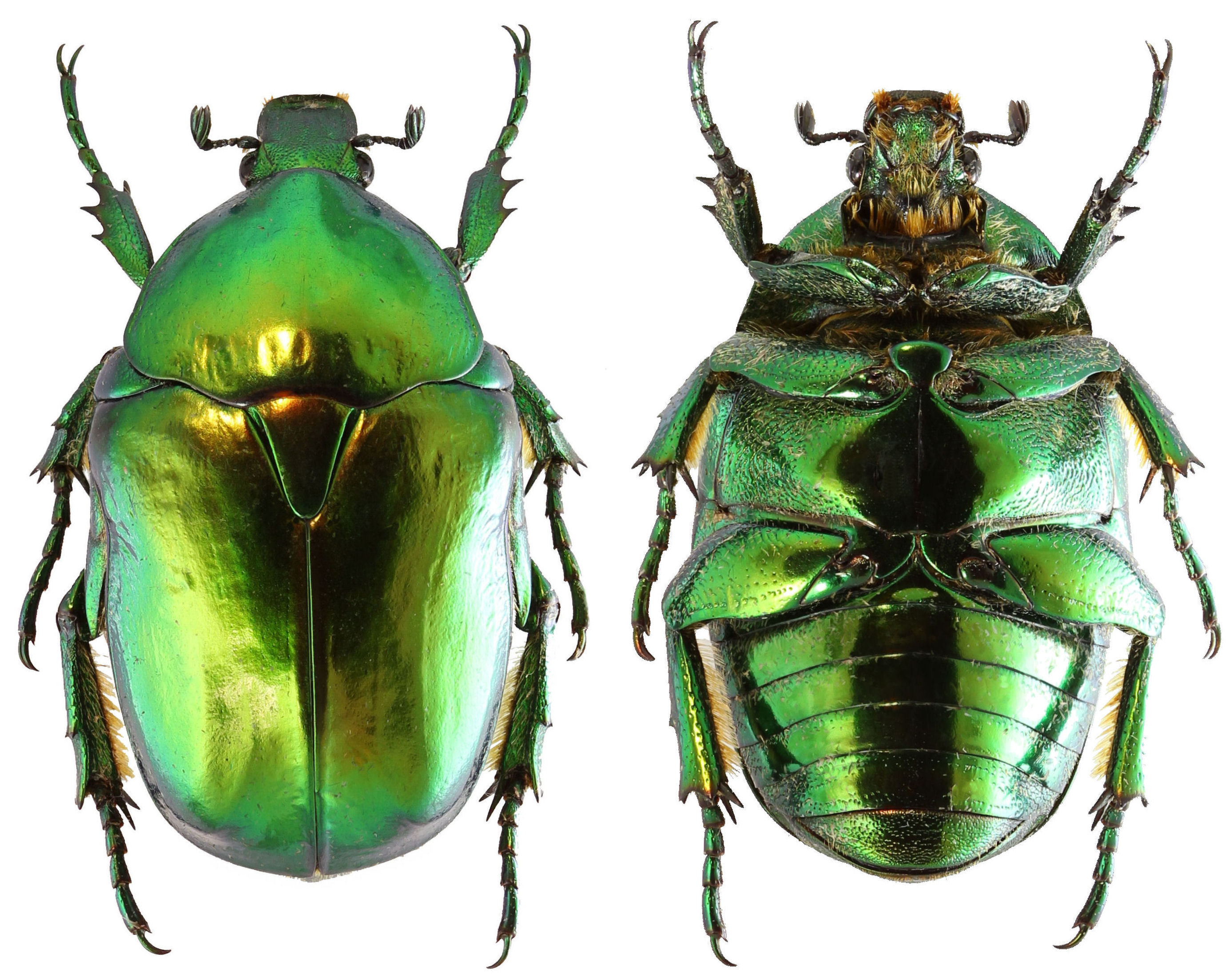 Protaetia aeruginosa. Dorsal & ventral habitus. Focus stacking montage. Edited.